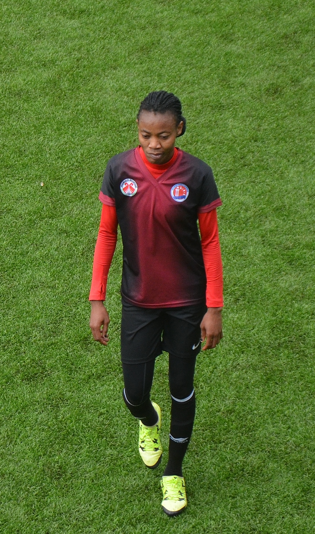 Gift Ele Otuwe playing for 1207 Antalya öşemealtı Belediyespor in the 2016-17 play-off away match against Beşiktaş J.K.